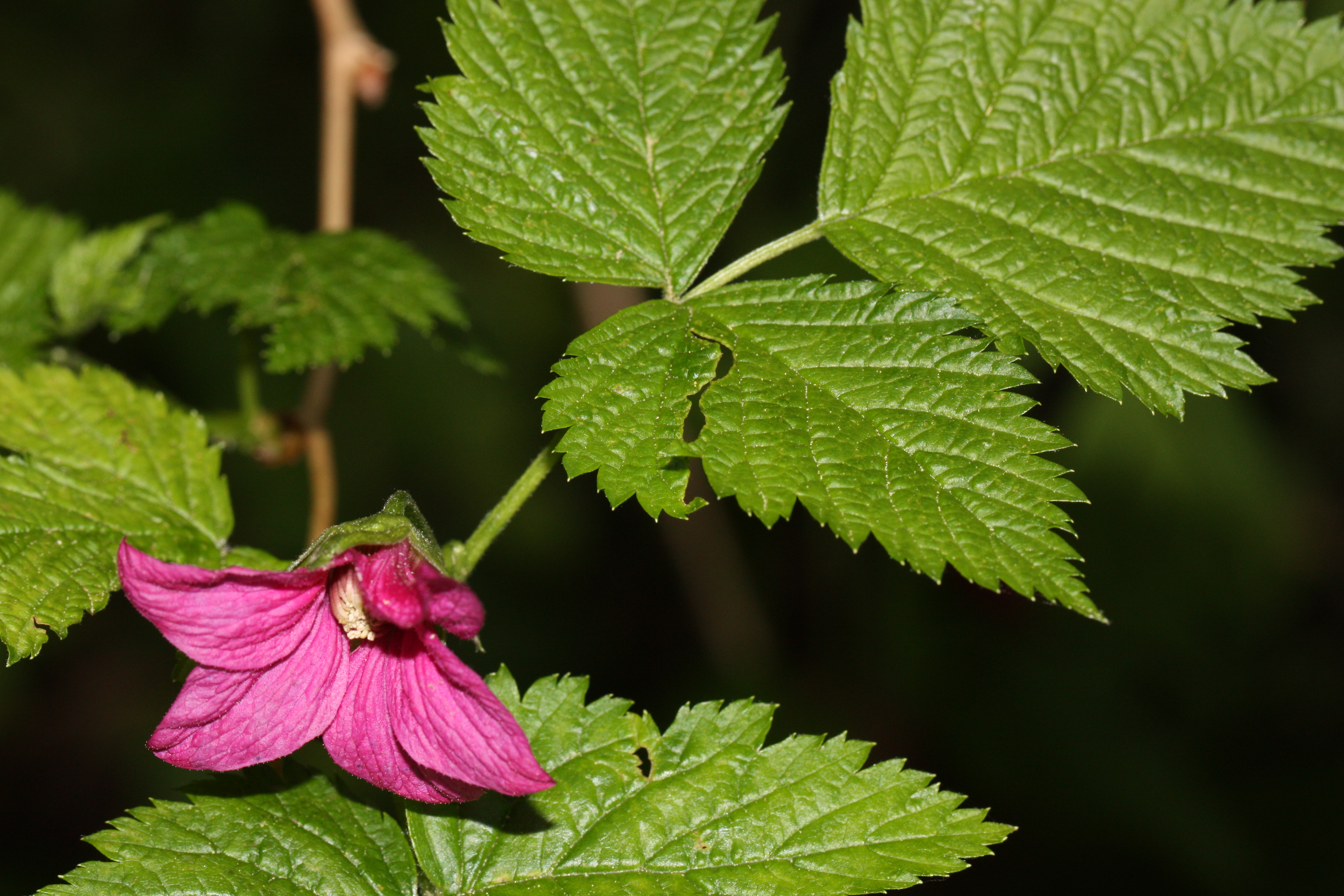 Salmonberry